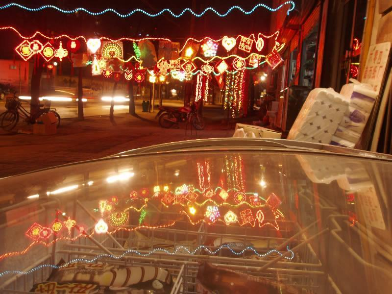 Shijiazhuang night view.Traditional Chinese Lantern Festival in Shijiazhuang city.